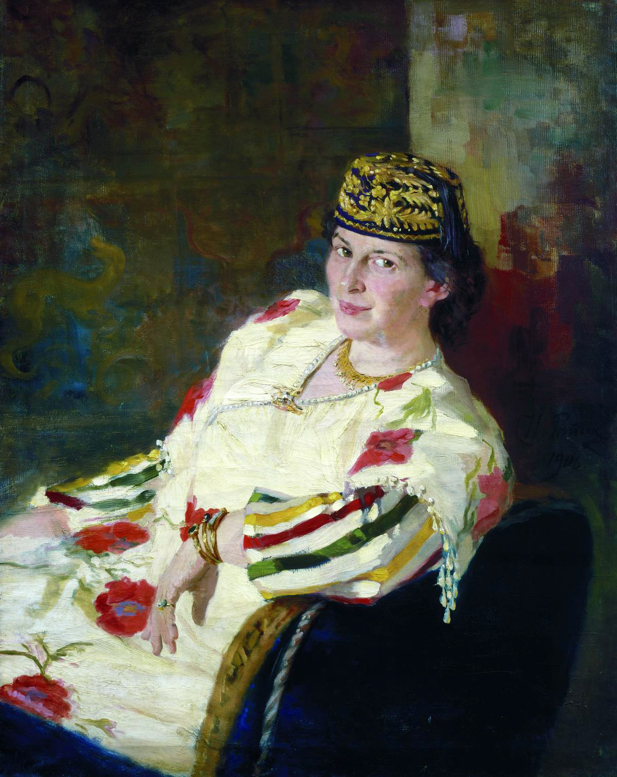 Portrait of patroness and countess Mara Konstantinovna Oliv